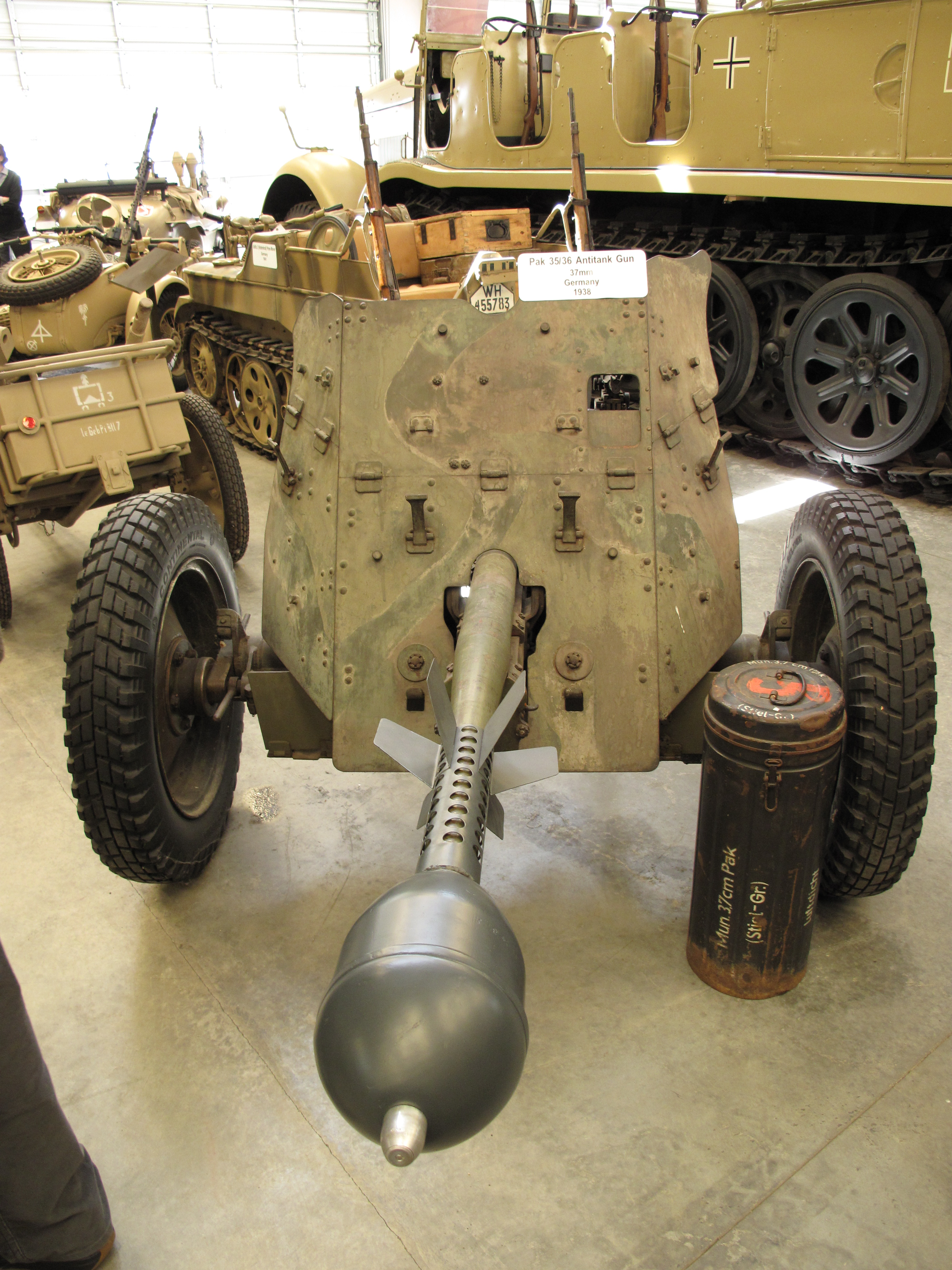 PaK 36 with Stielgranate 41, displayed at Military Vehicle Technology Foundation [1]